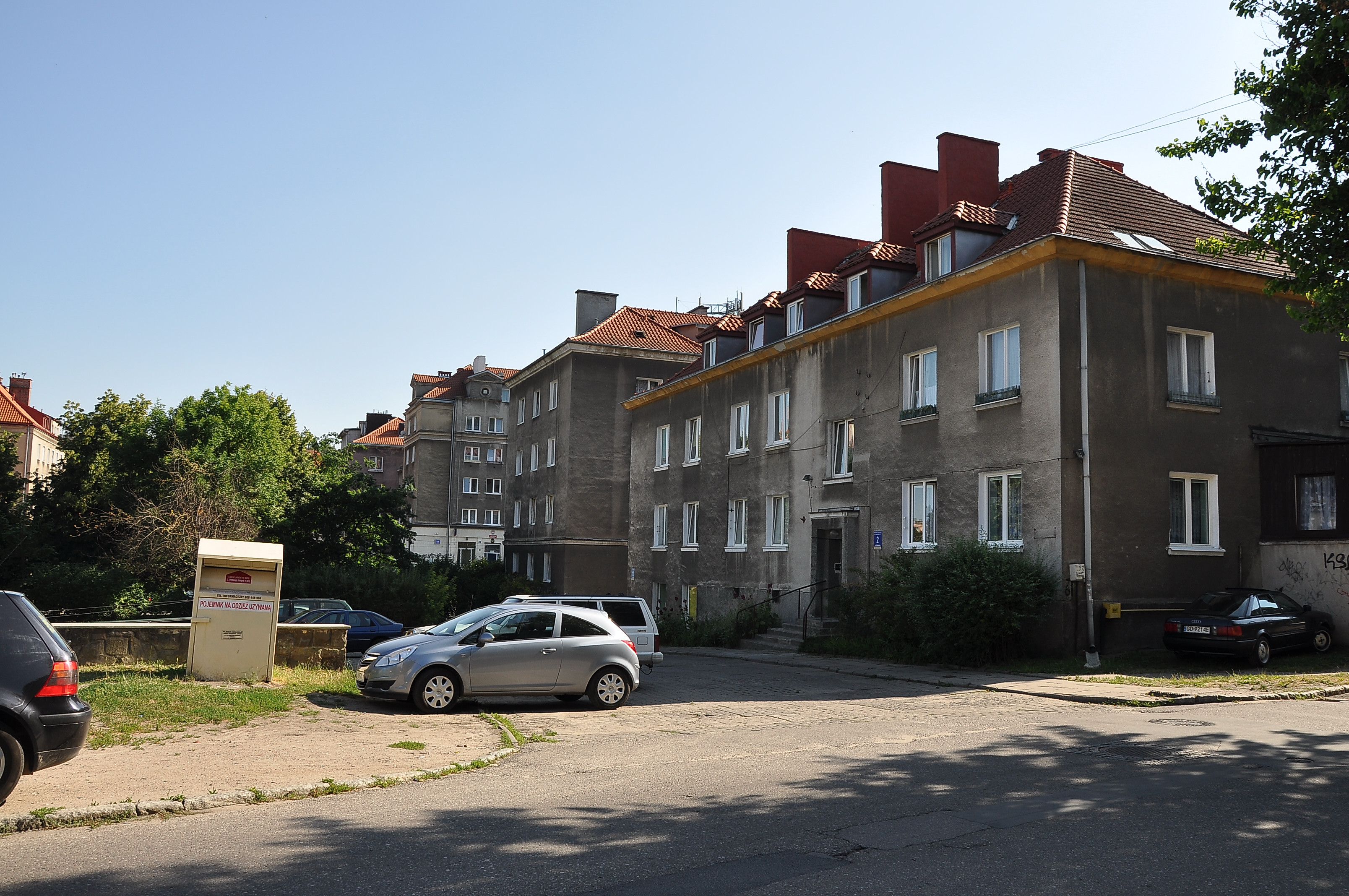 Winnicka Street in Siedlce district of Gdansk, Poland